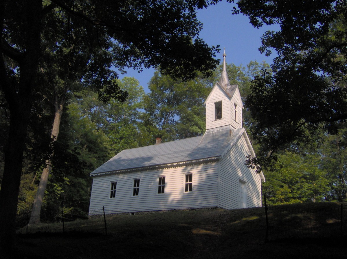 Little Cataloochee Baptist Church, sometimes called Ola Baptist Church, built in 1889. Will Messer later added the belfry, which contains a bell donated by William Hannah.